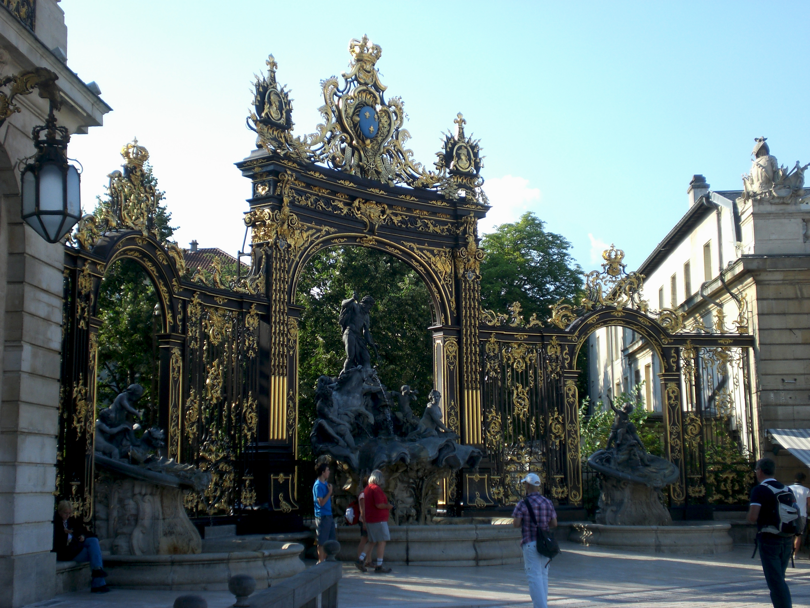 Nancy, Place Stanislas, Neptune's Fountain